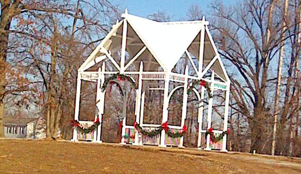 The Martin House, listed on the National Register of Historic Places, was razed in 2013, and this gazebo was erected on the site